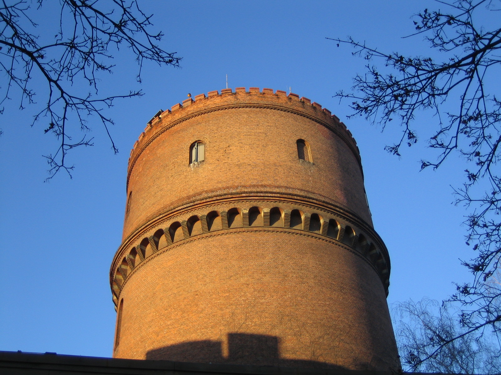 Water tower Neukoelln, is the largest still existing citizen of Berlin water tower.